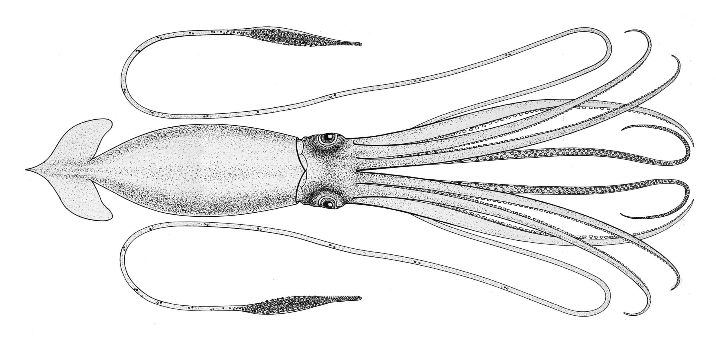 Architeuthis dux (Syn Architeuthis princeps)